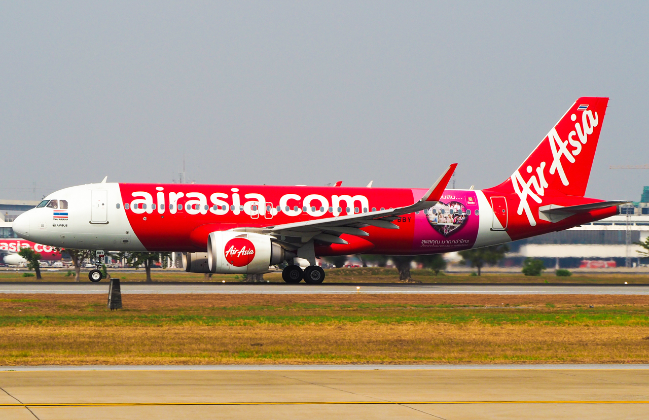 Airbus A320-251N Take off in Runway21L at Don Mueang International Airport on the Thai Children's Day in the second Saturday of the week in Jaruary